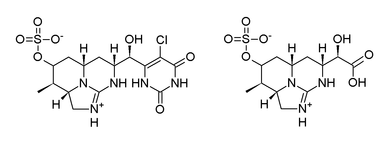 Cylindrospermopsin variant structures